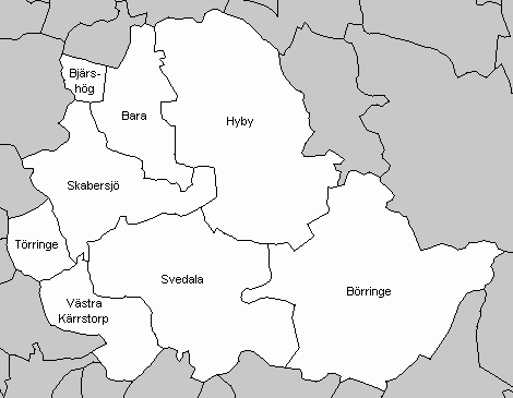 socken in Svedala